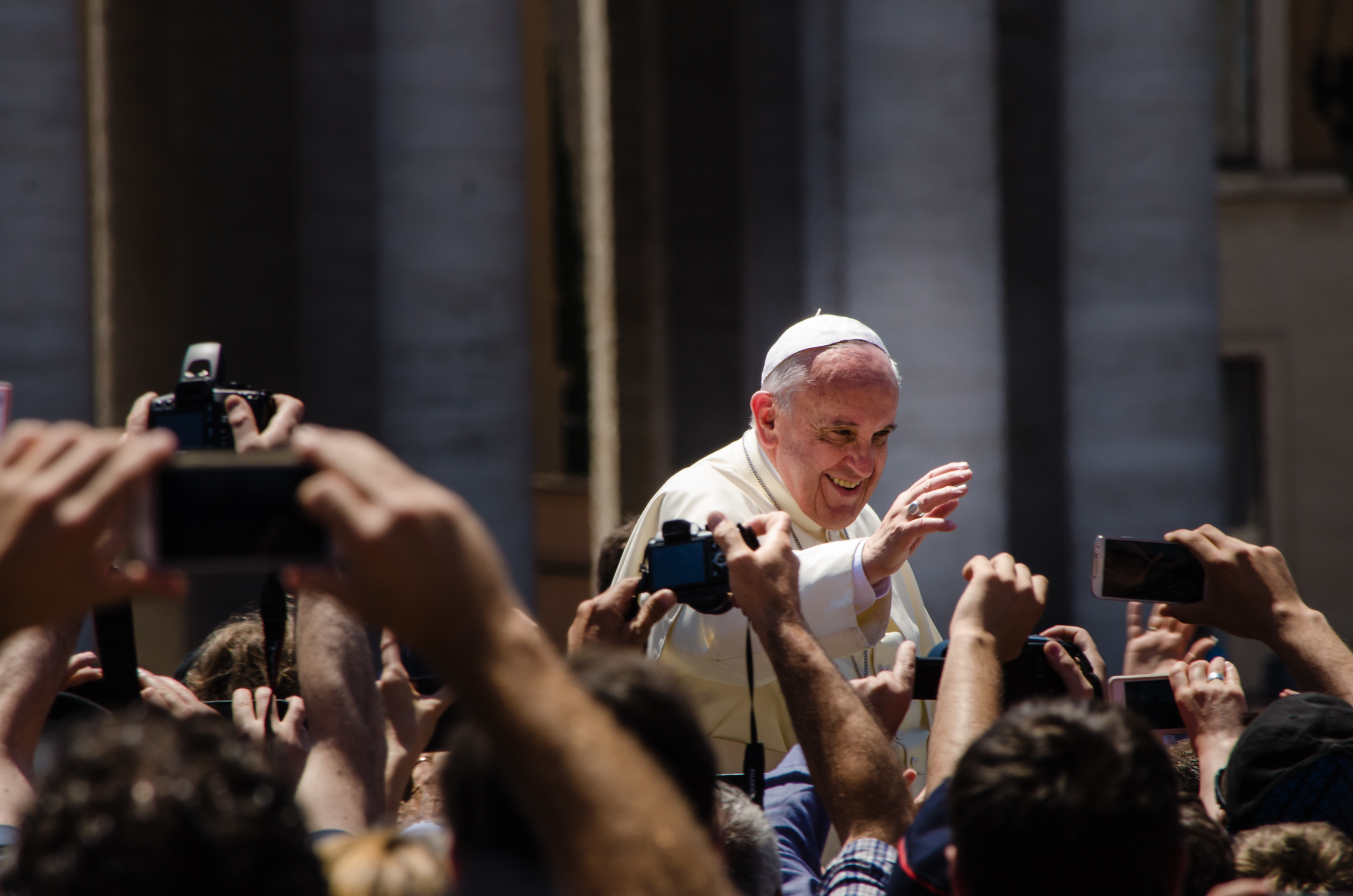 Pope Francis in St Peter's square - Vatican